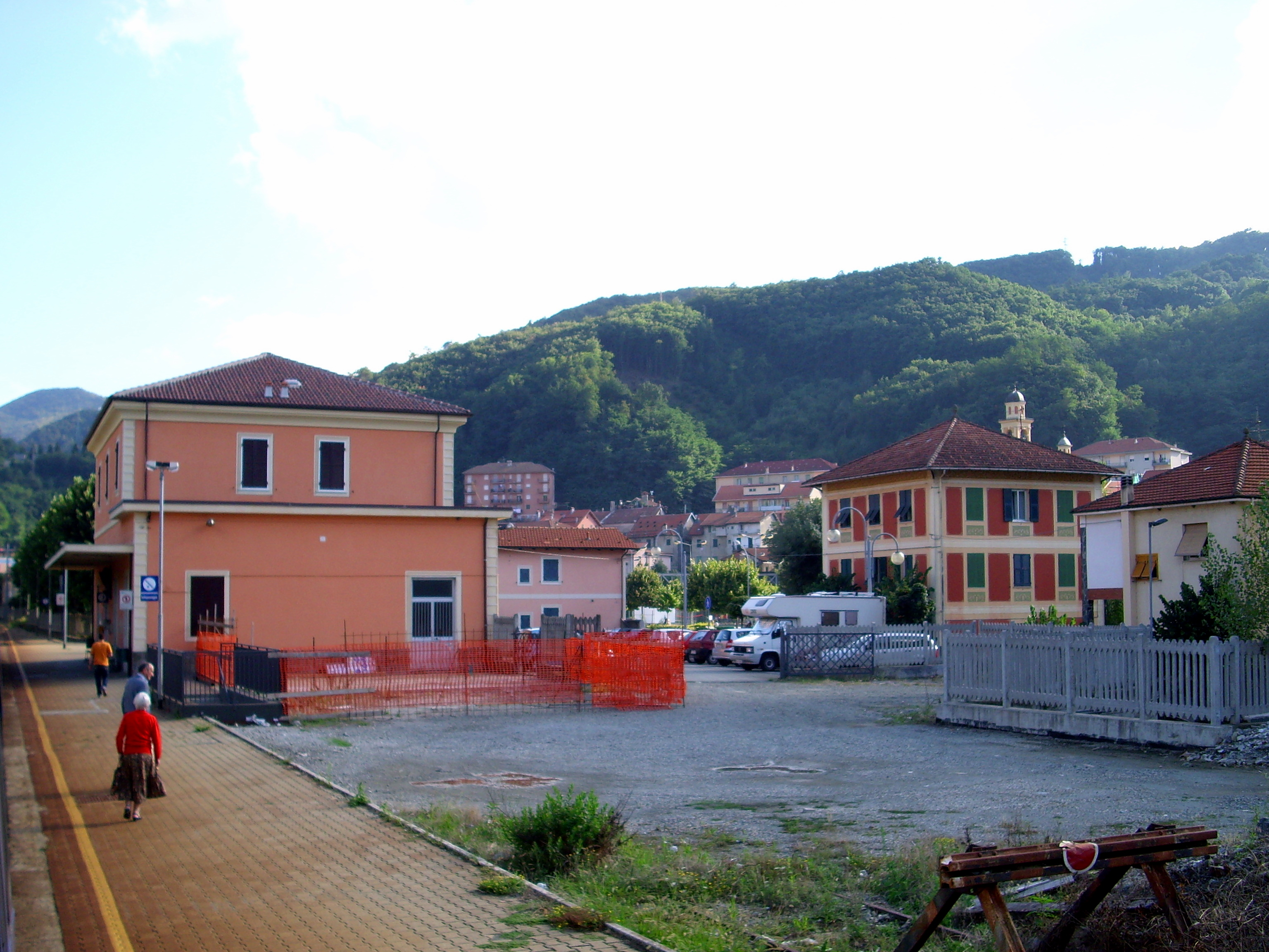 Rossiglione train station